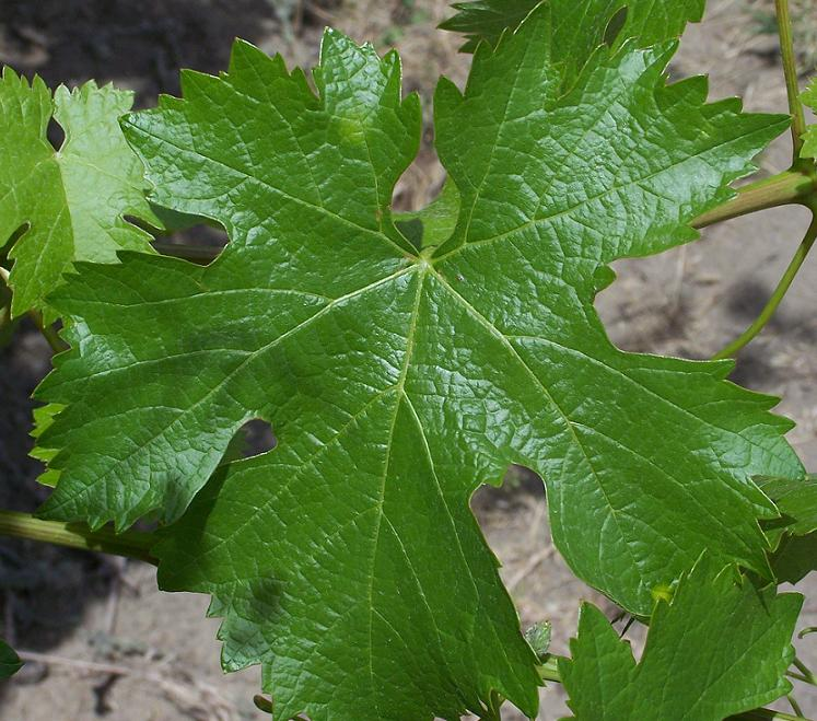 Cab franc leaf from Hedges vineyard in the Red Mountain AVA. Photo take on Sun June 10th 200 with a kodak z650